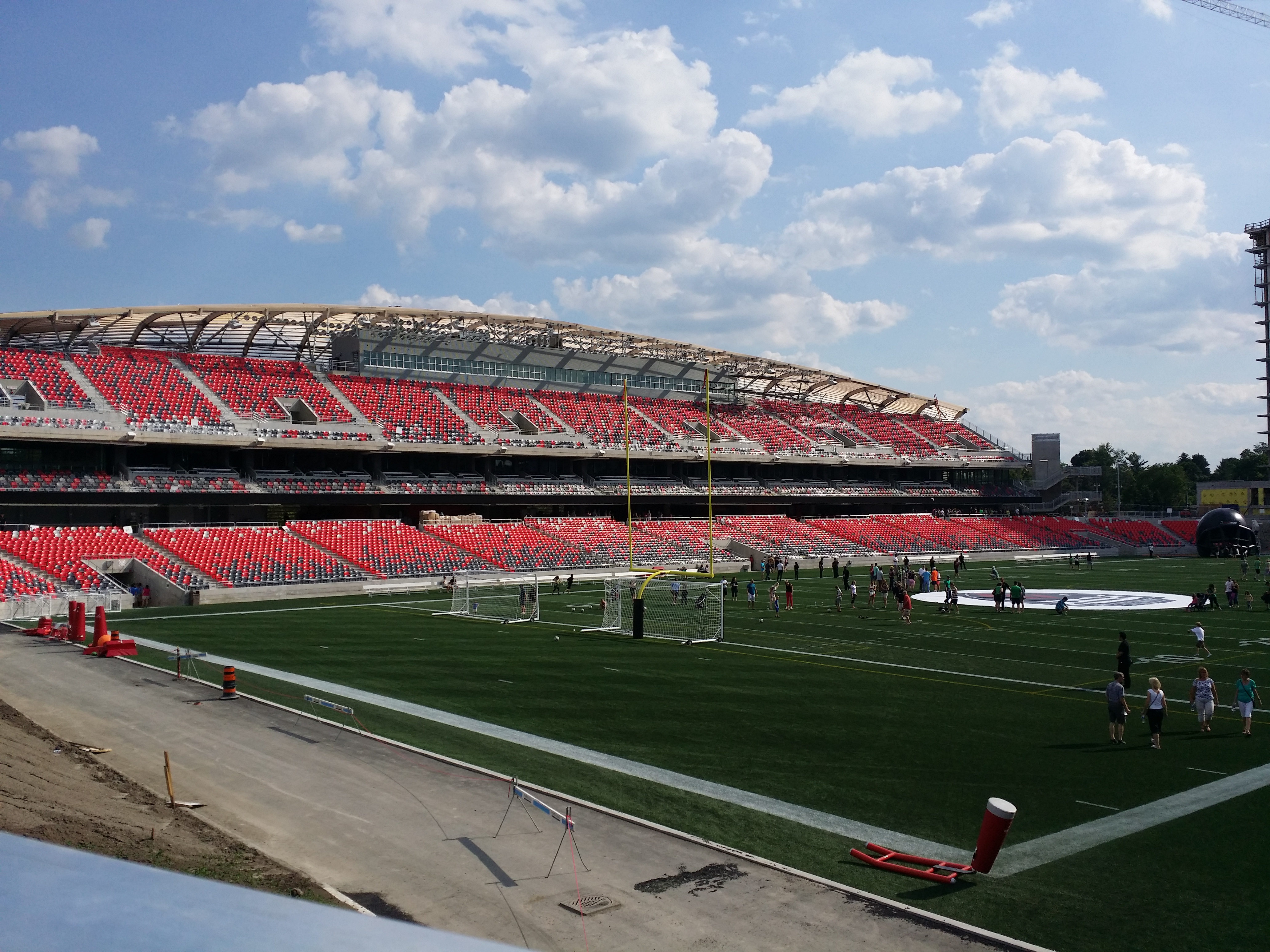 The newly reconstructed TD Place.